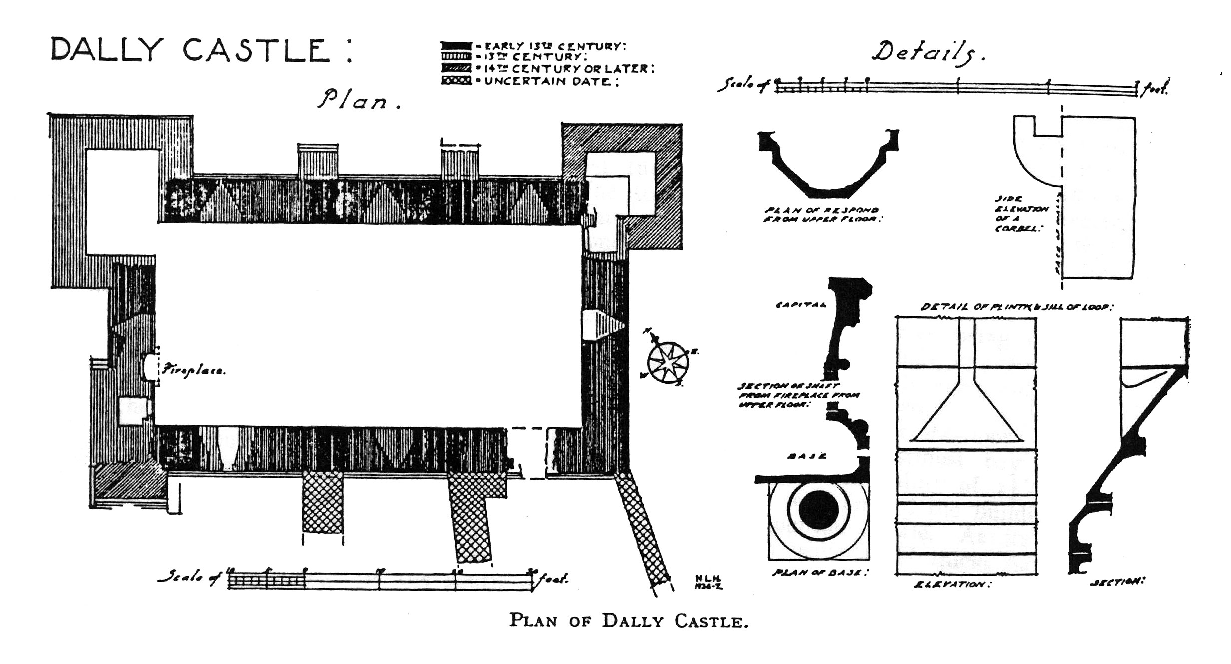 From page 274, History of Northumberland